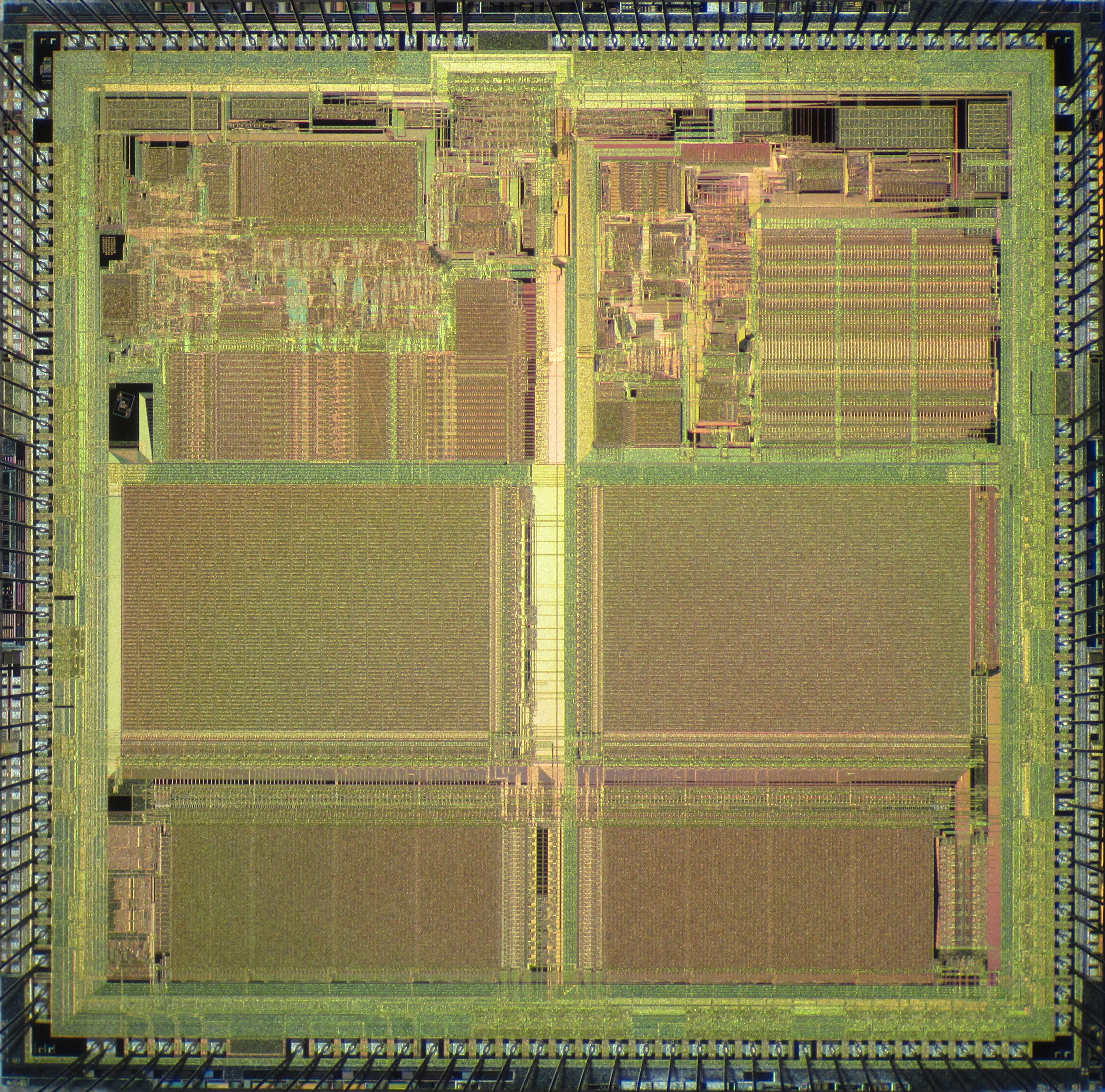 Die shot of DEC CVAX SoC microprocessor (DC222G).